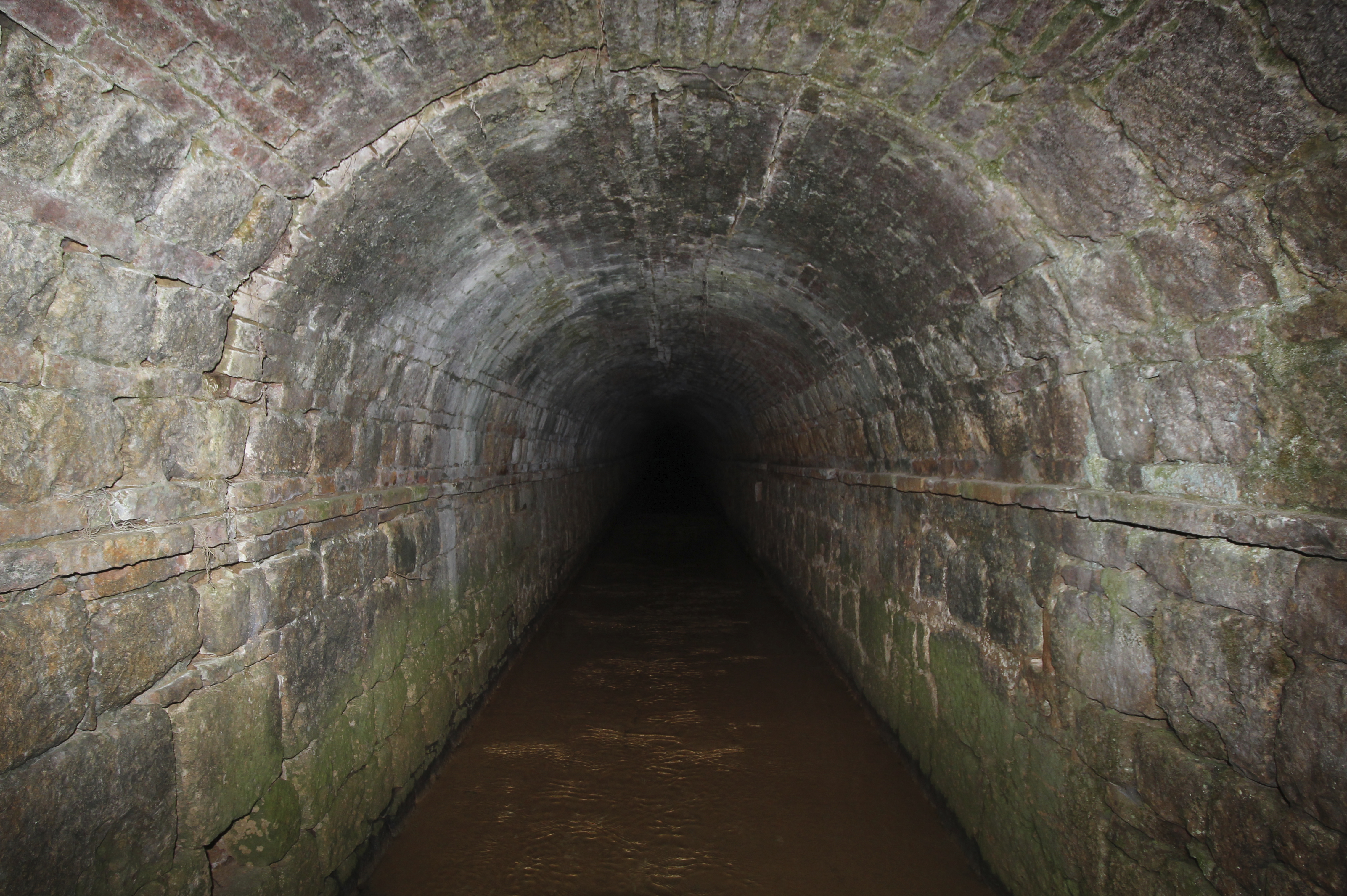 Water channel Canale del Granduca, Pian del Lago, Siena, Province of Siena, Tuscany, Italy